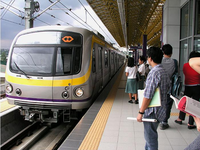 MRT-2 Train in Manila Author has authorized use of this image elsewhere. Author: Filipino Forumer